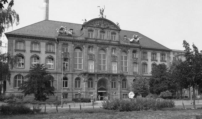 Title: Frankfurt/Main, Universität Factual corrections and alternative descriptions are encouraged separately from the original description. Additionally errors can be reported at this page to inform the Bundesarchiv. Original historic description: Frankfurt am Main: Universität